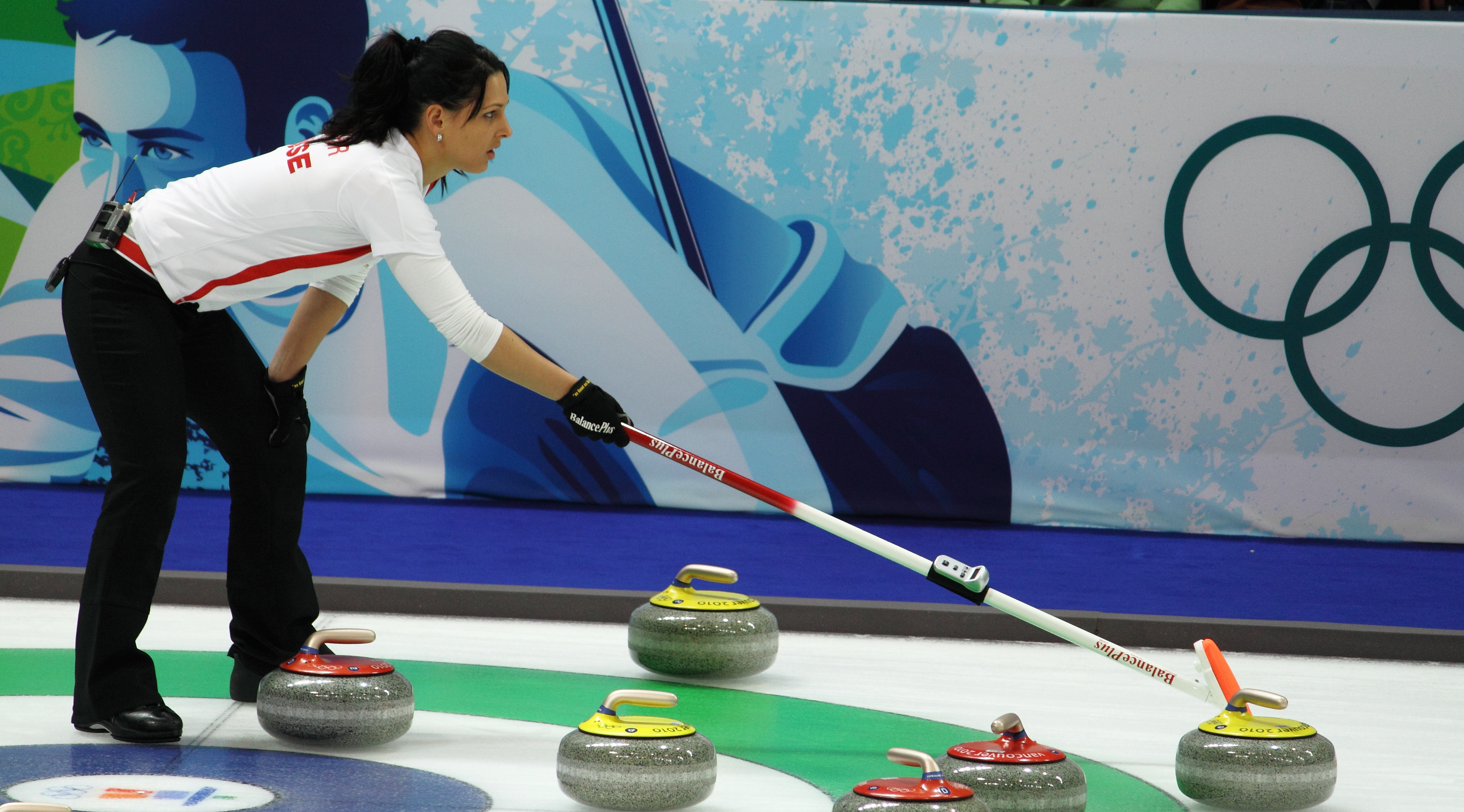 Carmen Schäfer; 2010 Vancouver Olympic Games - Women's Curling - Preliminary from Vancouver Olympic Centre